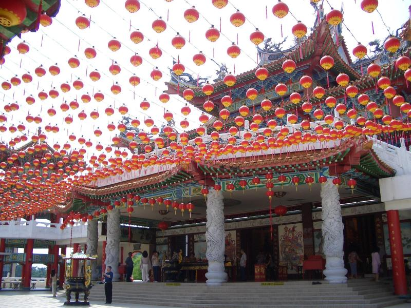 The Queen of Heaven (Thean Hou) is the protector of those who make their living from the sea. She can be seen in the centre with Shuiwei on her left and Guanyin on her right. The temple's walls are covered with tiles depicting the latter as well as donators for the temple's construction.